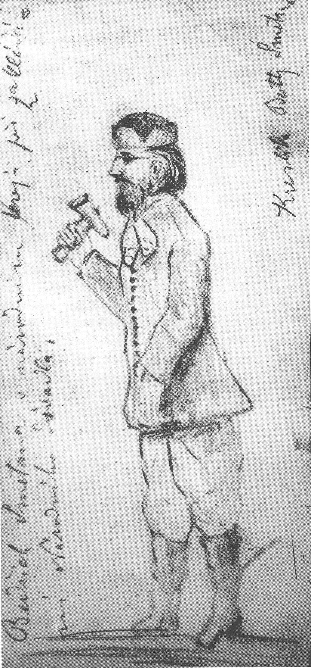 B. Smetana knocking on the foundation stone of the National Theatre, Prague, 16 May 1868. Drawing by his wife Bettina.